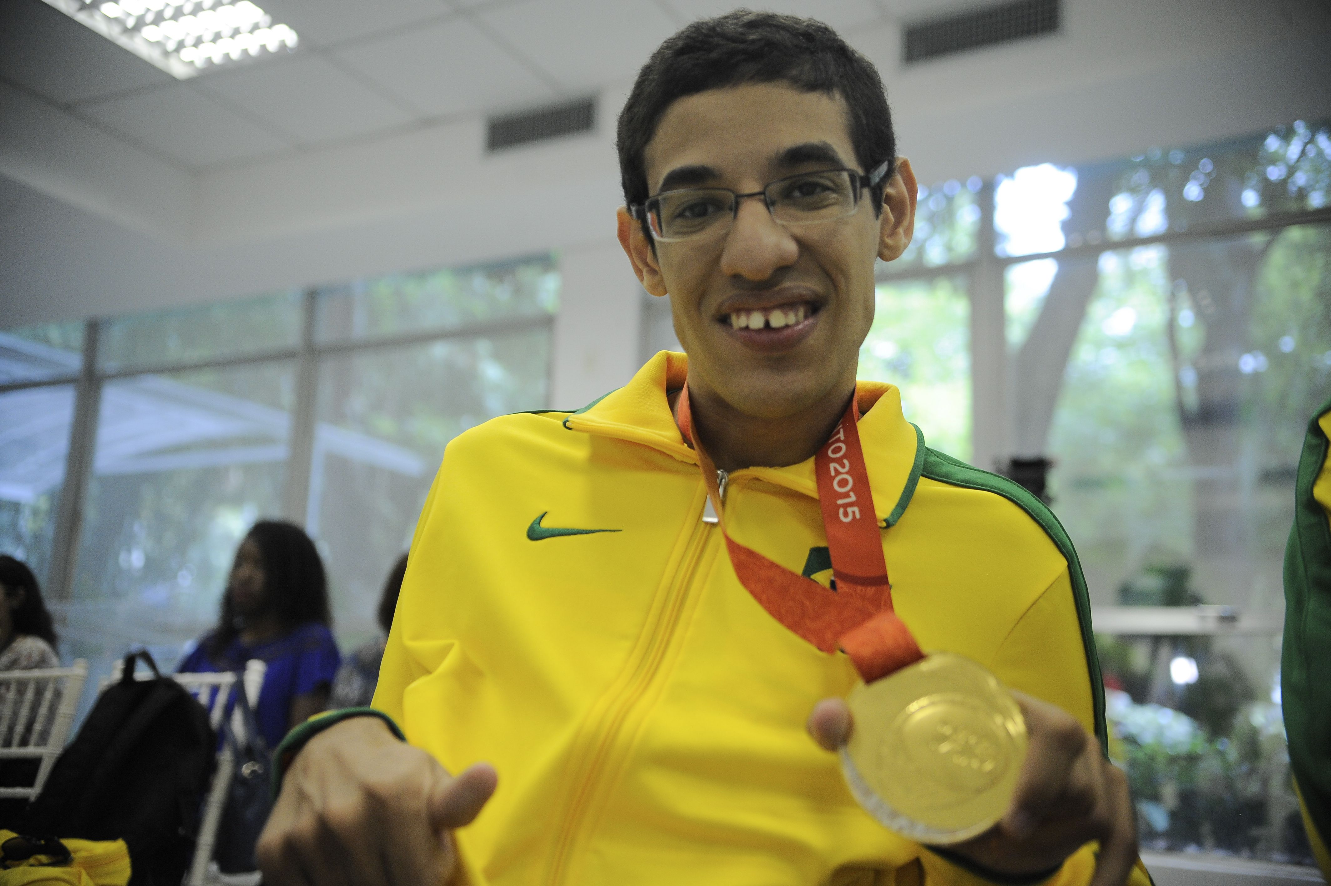 Photo by Tânia Rêgo/Agência Brasil CCBY3.0